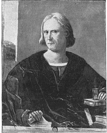 Reproduction of Lorenzo Lotto painting showing a learned man, supposedly Columbus.